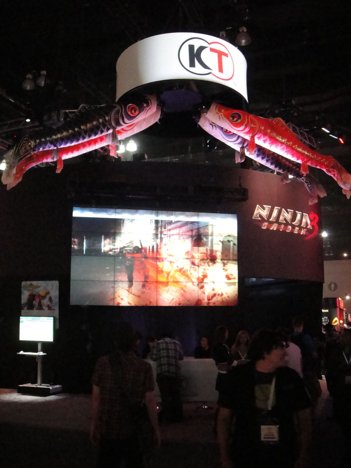 photo © 2011 taken by Doug Kline If you're interested in higher resolution versions of my images, contact me via my profile page.